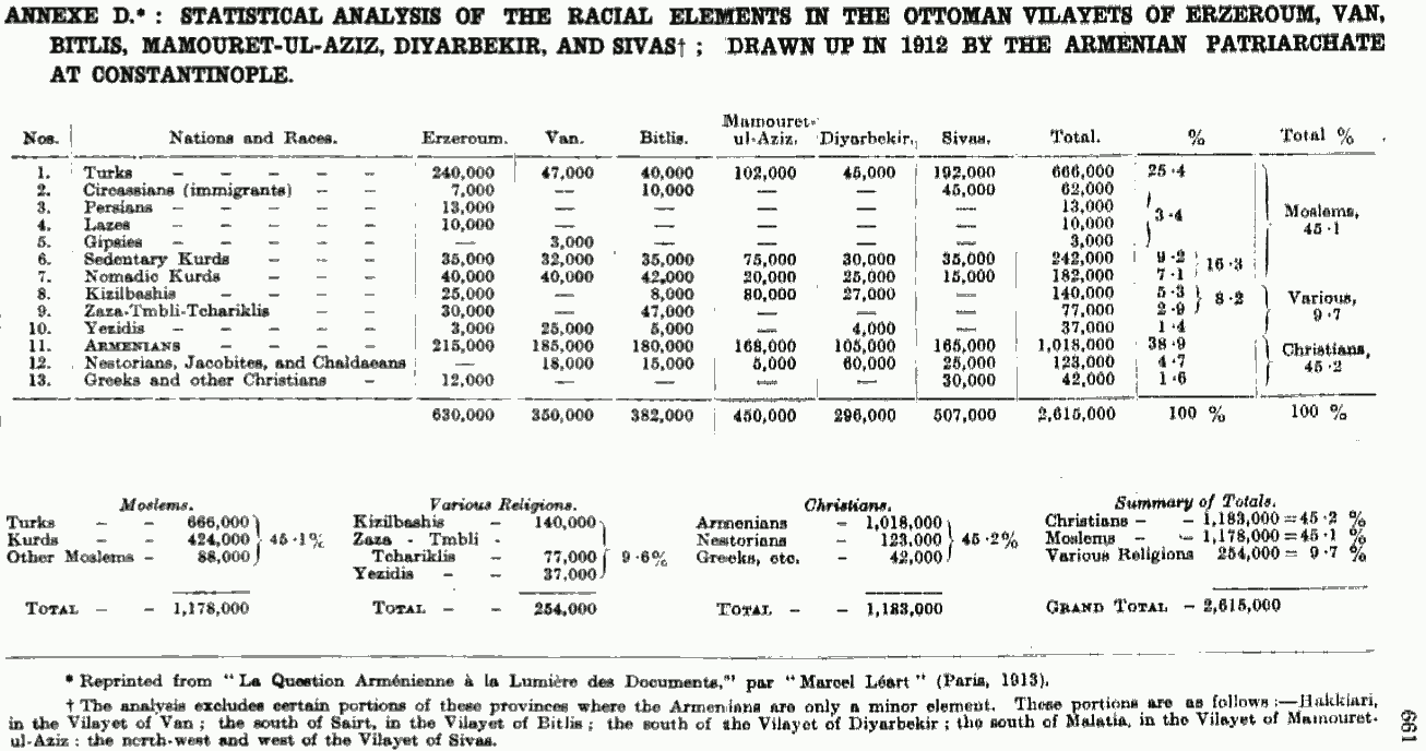 Arnold Toynbee's re-calculated population values of the Ottoman Empire in 1912. As explained in the footprint: The analysis excluded certain portions of a province where "Armenians are minor". In the "vilayet of Van", (vilayet is a province in the Ottoman Empire) there were two portions (portions in modern use correspondes to county). Arnold Toynbee to find the ratio of Armenians in "Van," removed the values originating from portions of Van (listed in the foot print) where Armenians were in minority in this province. The presented table shows the re-calculated values of the stated provinces using values where Armenians are not in minority. This graphic was first prepared in 1913 by the Armenian politician Marcel Leart (Krikor Zohrab).